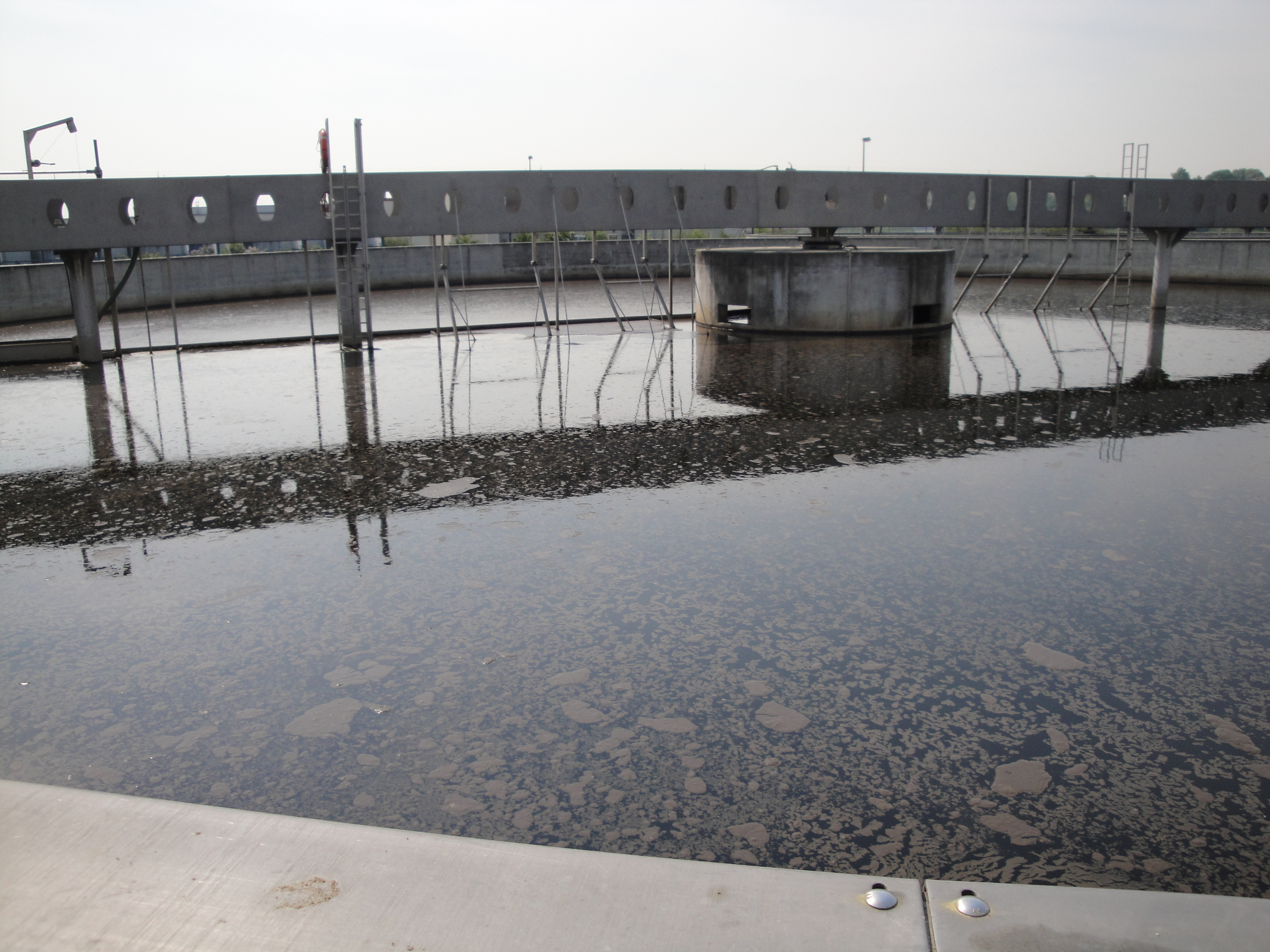 Kläranlage Dresden Kaditz - Wastewater treatment plant in Dresden, Saxony